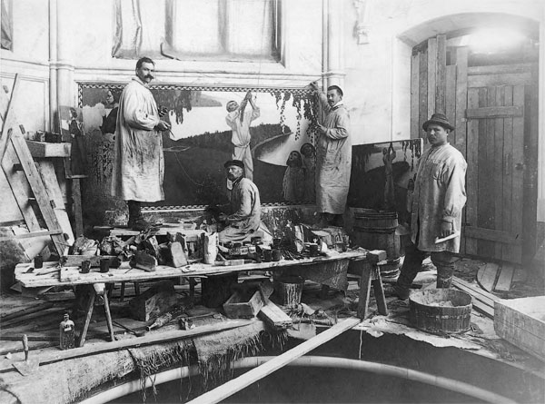 Finnish painter Akseli Gallen-Kallela (left) working on the frescoes of Juselius Mausoleum in Pori, Finland 1901–1903.